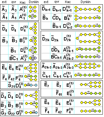 Summary of geometric folding of affine Dynkin diagrams/Coxeter-Dynkin diagrams: Collected from paper Generalized Dynkin diagrams and root systems and their folding, 1997